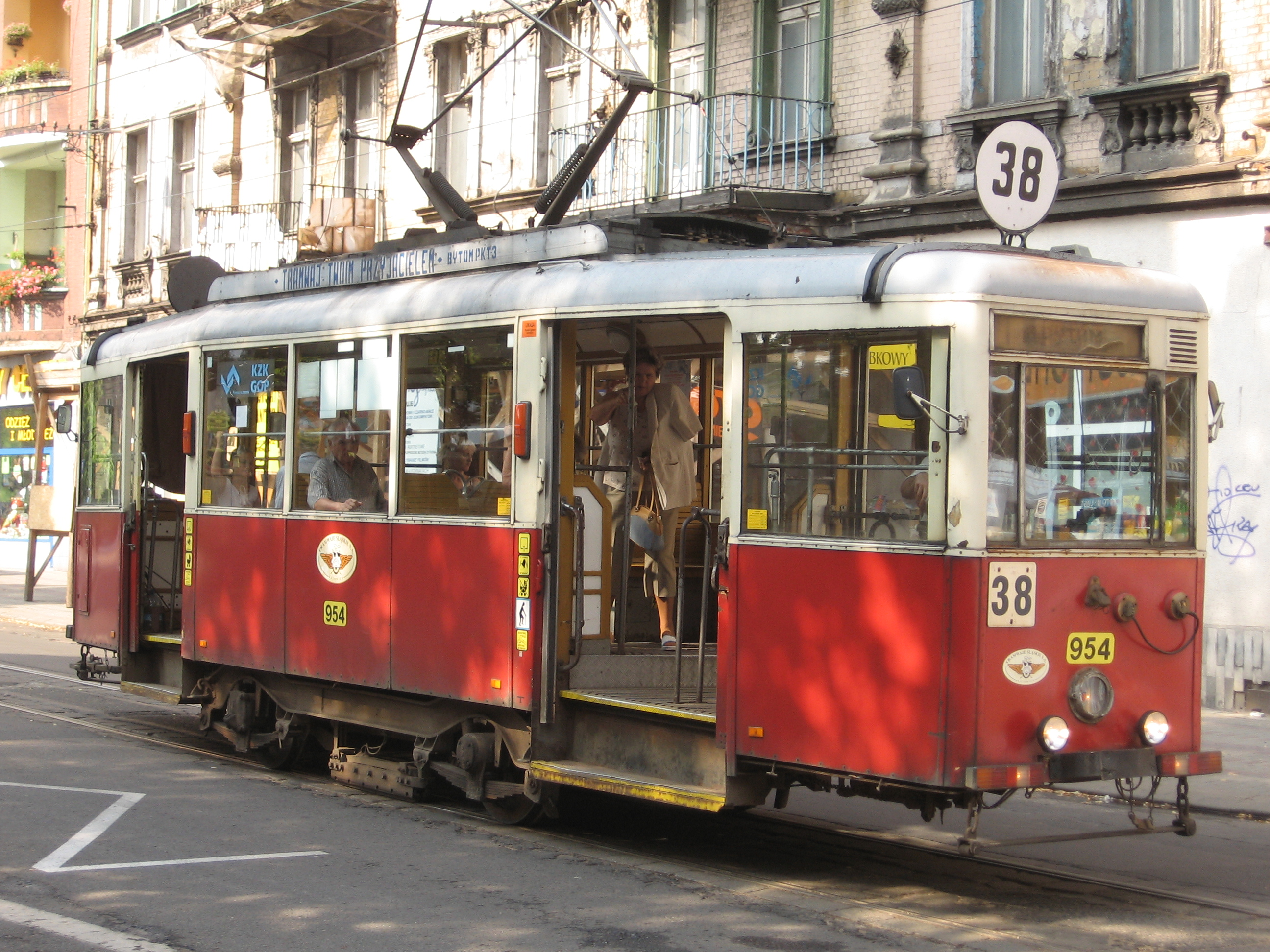 Konstal N tram (#954) in Bytom, Poland.